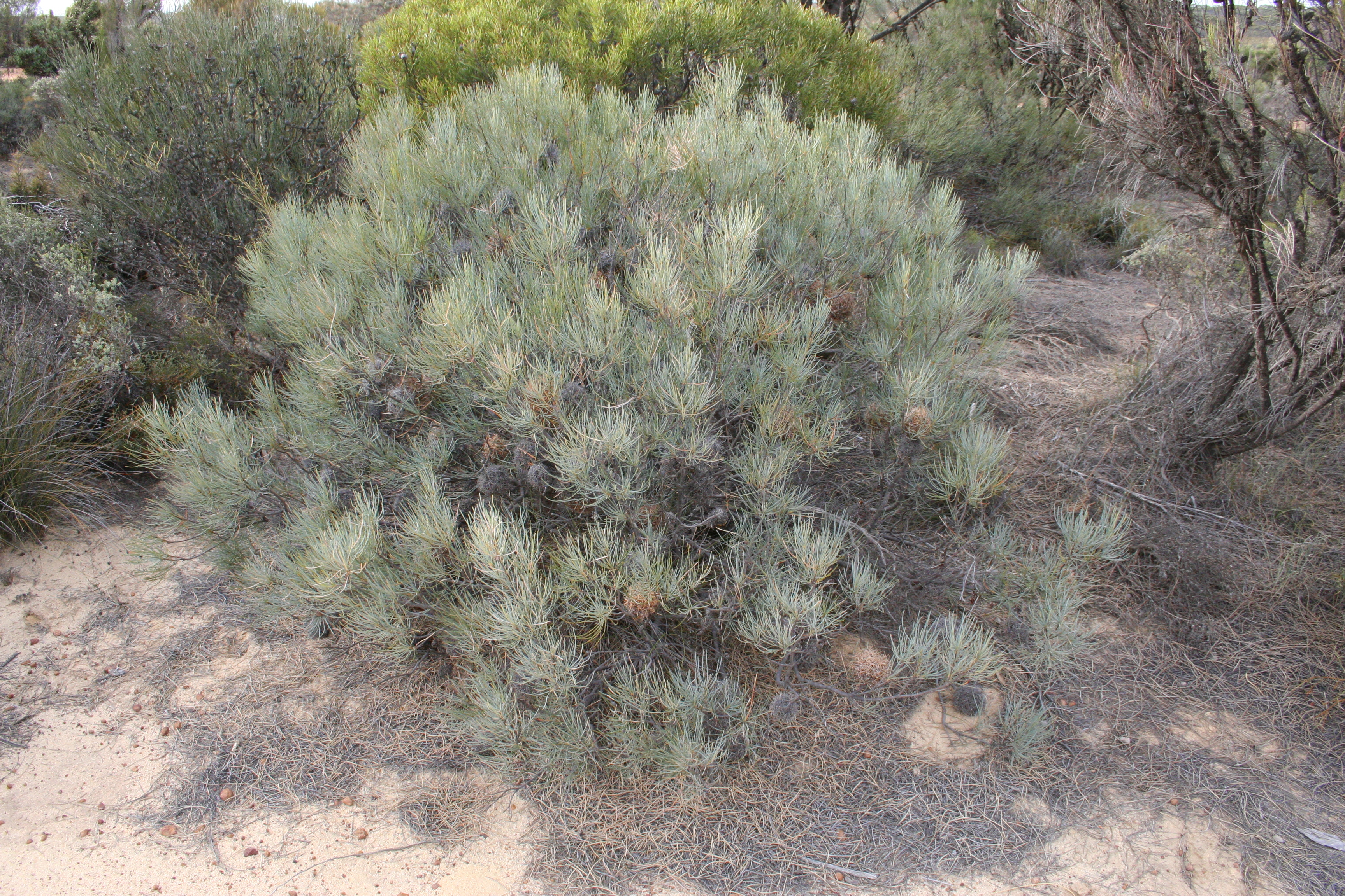 Habit shot of Banksia sphaerocarpa caesia, displaying glaucous foliage. North Karlgarin Nature Reserve...somewhere in the wheatbelt...